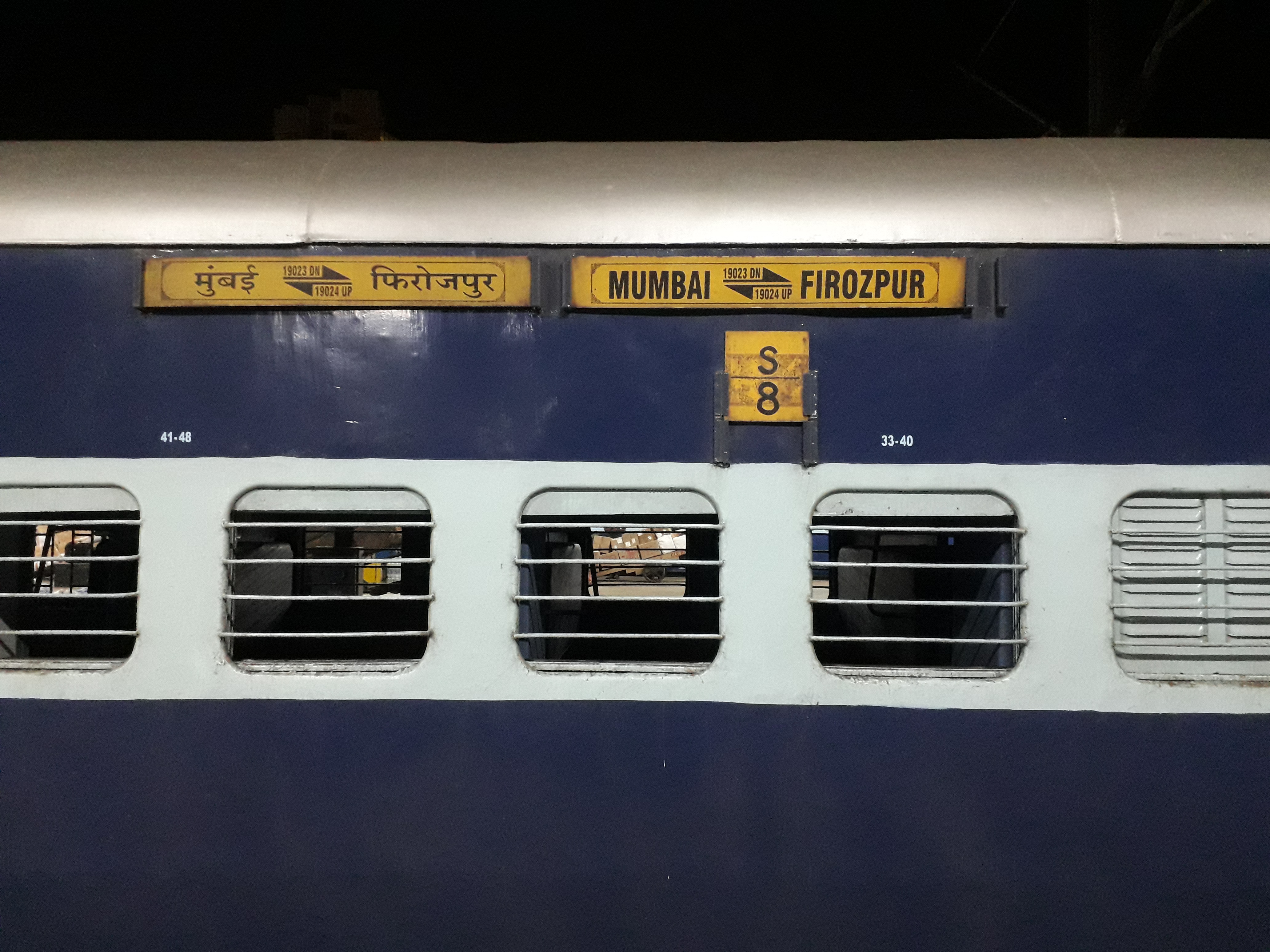 19024 Firozpur Janata Express - 8th Sleeper Class coach